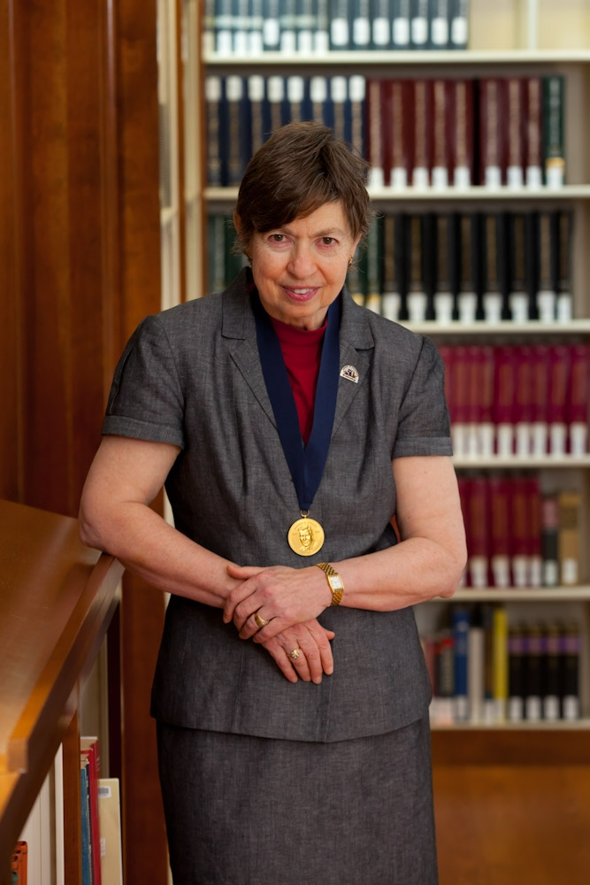 Photograph of Marye Anne Fox, chemist, chancellor of the University of California, San Diego, and recipient of the 2012 Othmer Gold Medal, Taken at the 2012 Heritage Day, April 12, 2012, Chemical Heritage Foundation, Philadelphia, PA, USA.